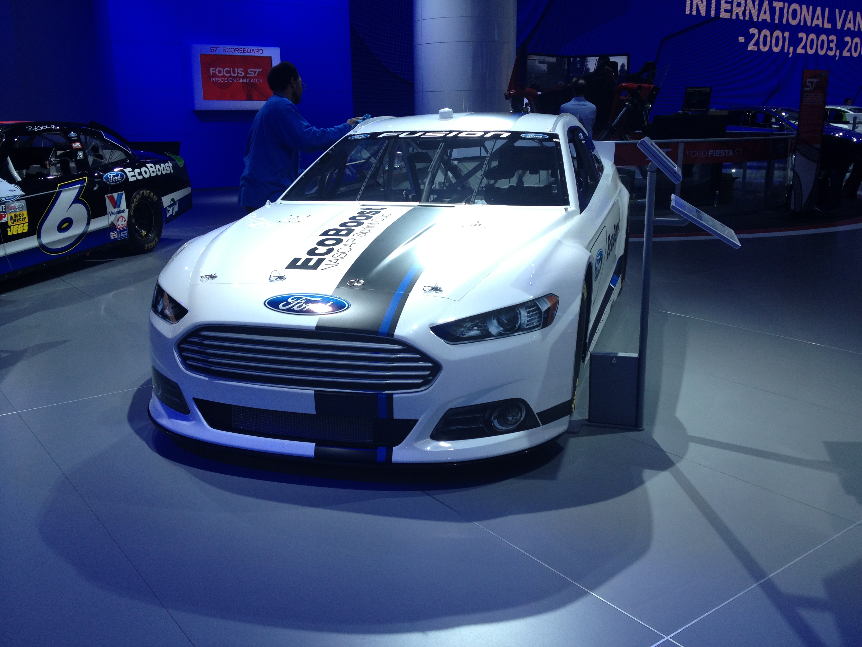 2013 North American International Auto Show Detroit, Michigan